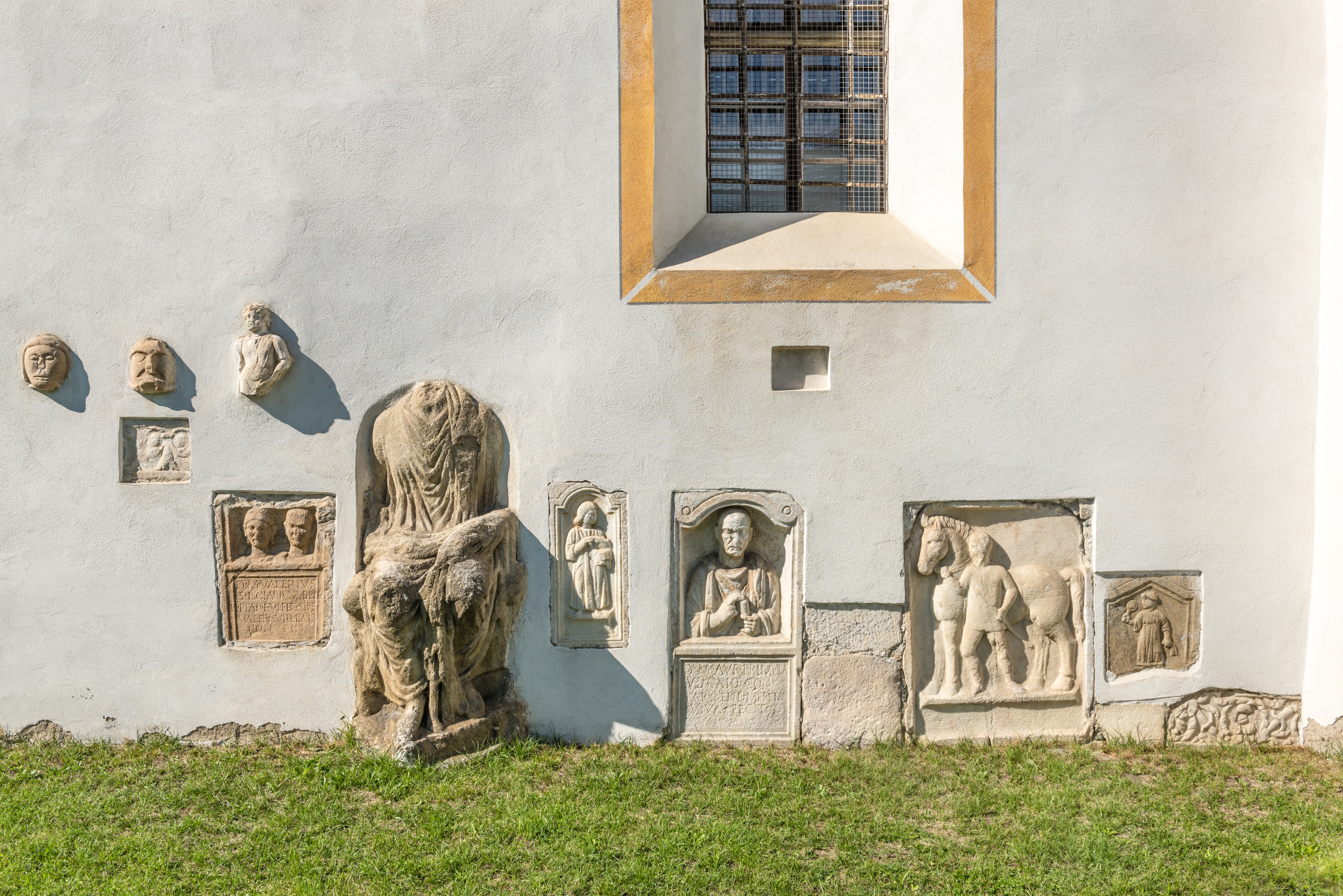 Lapidarium at the parish church Saint Donatus in Sankt Donat, municipality Sankt Veit an der Glan, district Sankt Veit, Carinthia, Austria, EU